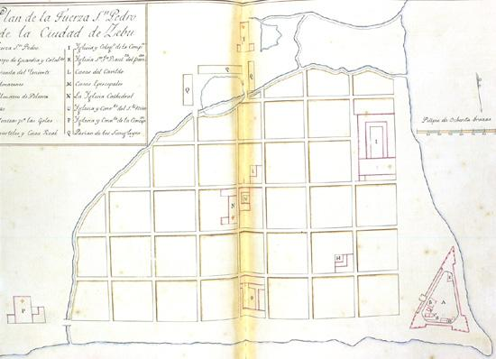 lower right corner of picture shows location of fort in relation to the Spanish settlement plan of Cebu in 1643